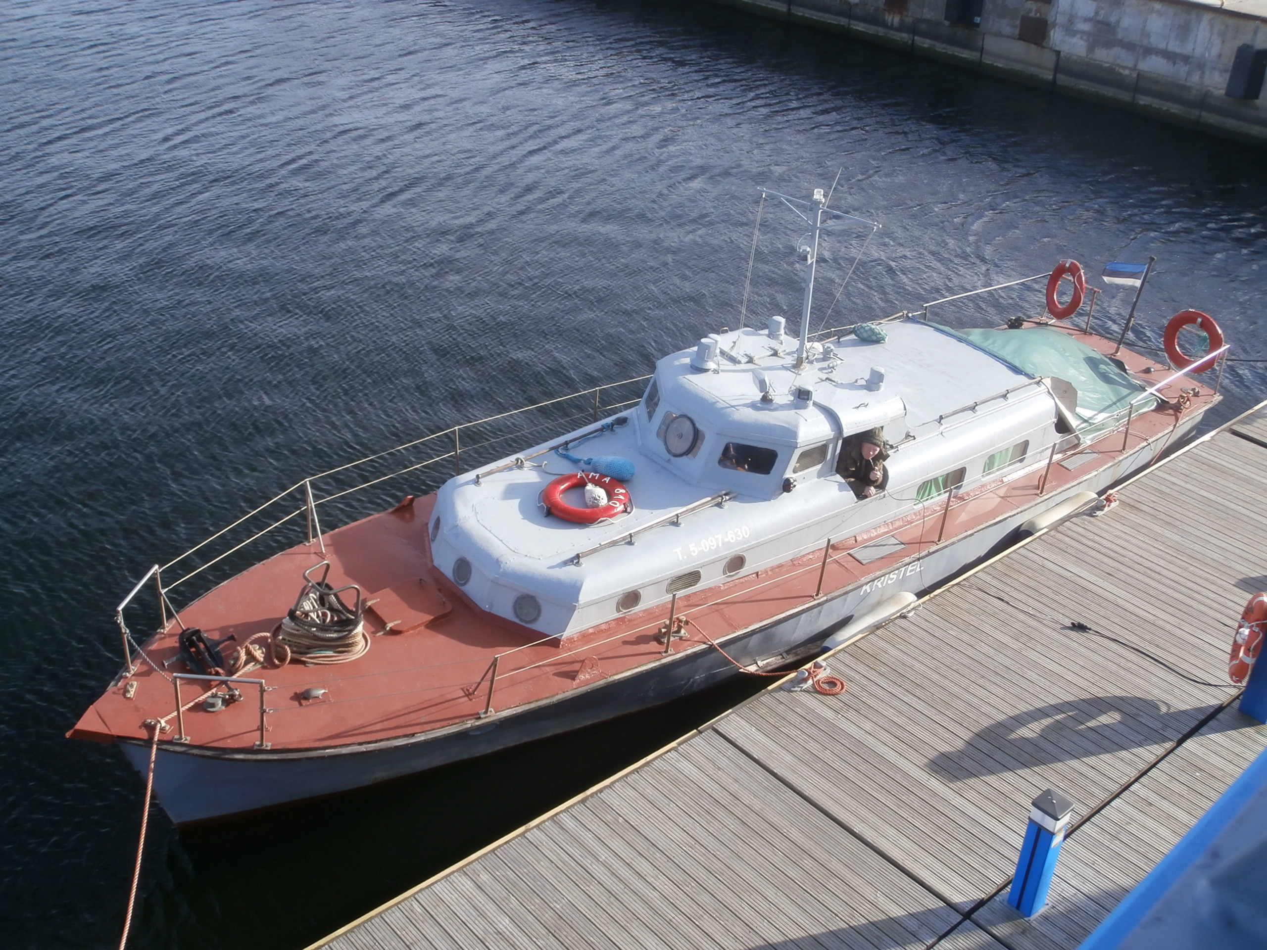 AMA-810 Kristel at Pier in Lennusadam Tallinn 5 October 2013